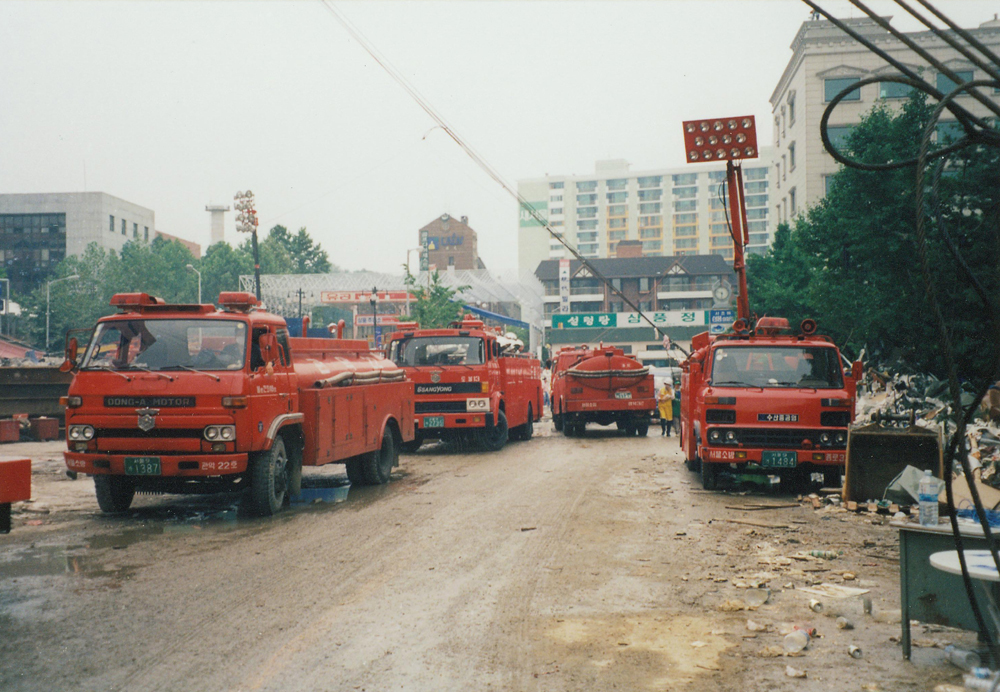 서울특별시 소방재난본부 소장 사진.photos of Seoul Metropolitan Fire&Disaster Headquarters.